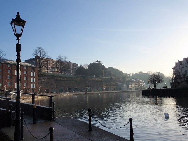 Exeter Quay. Taken from the end of Mallison Bridge, looking along the quay past 236100 to the antique shops in the wall arches (see 236106), with 267071 above. On the right is 1089228.